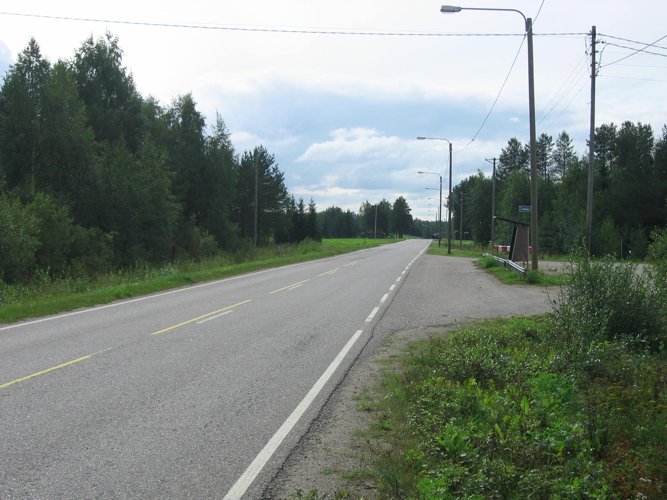 Regional road 926 in Ossauskoski, Tervola, Finland, seen towards the South.